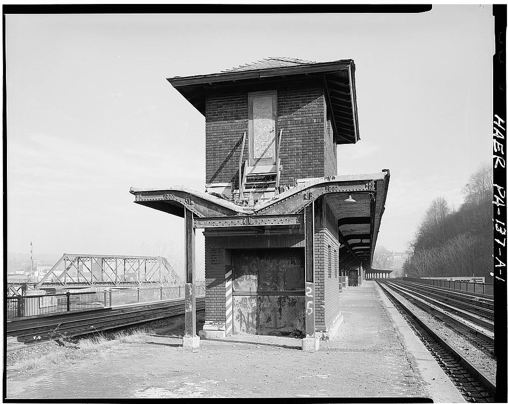 The former Lehigh Valley Railroad station in Easton, Pennsylvania. The photographer is standing at the west end of the platform and looking east down the Lehigh Valley main line toward New Jersey. The Central of New Jersey Railroad bridge over the Lehigh River is visible at left.